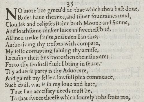 Sonnet 35 in the 1609 Quarto of Shakespeare's sonnets